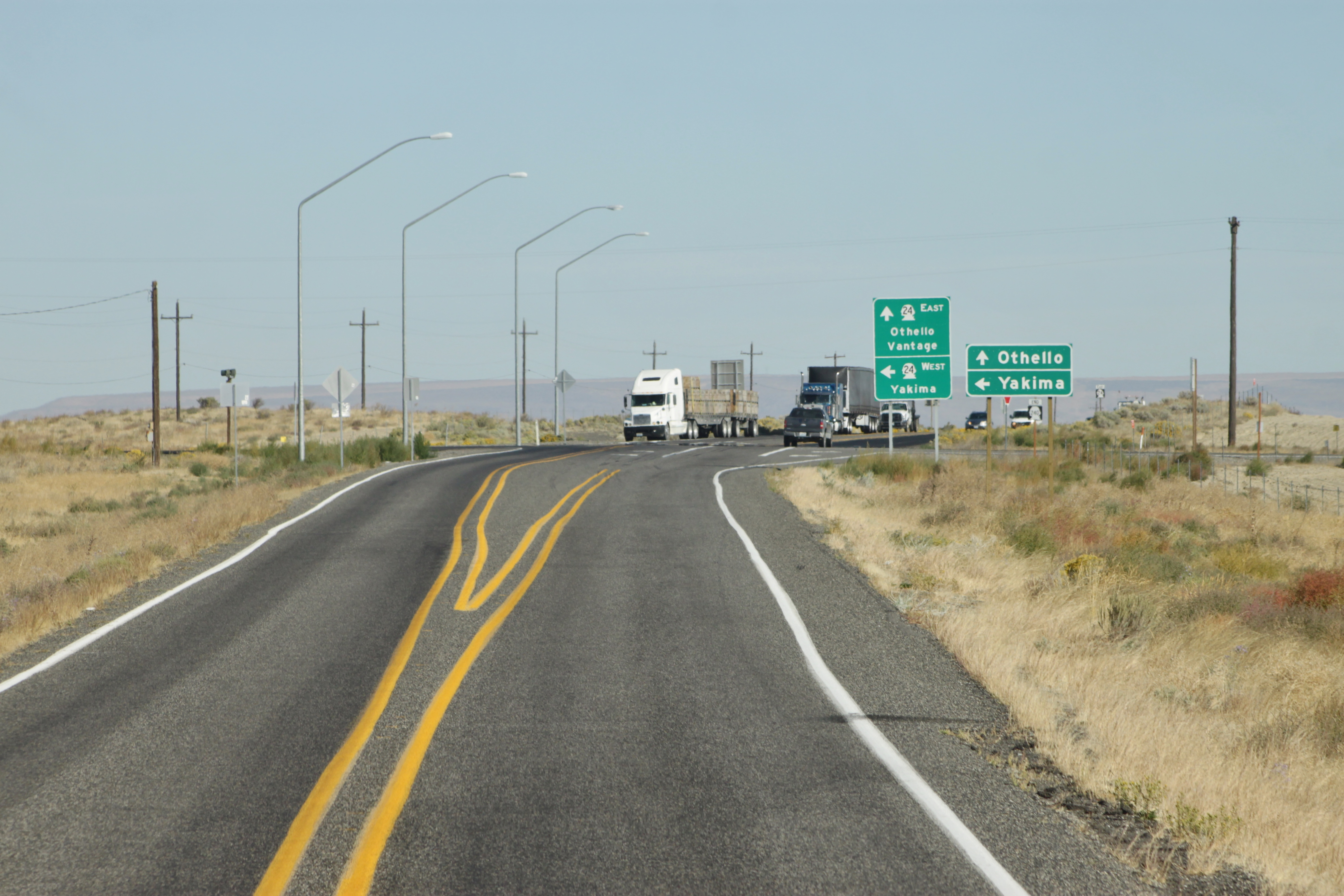 Looking northbound on State Route 240 as it approaches its western terminus at a junction with State Route 24 on the Hanford Reservation.